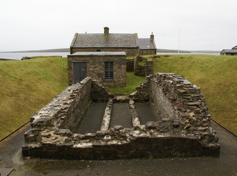 Hackness Martello Tower and Battery, South Walls, Orkney, Scotland. Powder magazine.